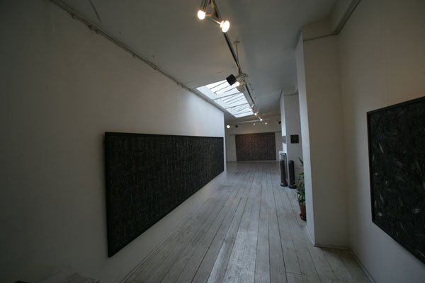 Salle de la galerie Humus